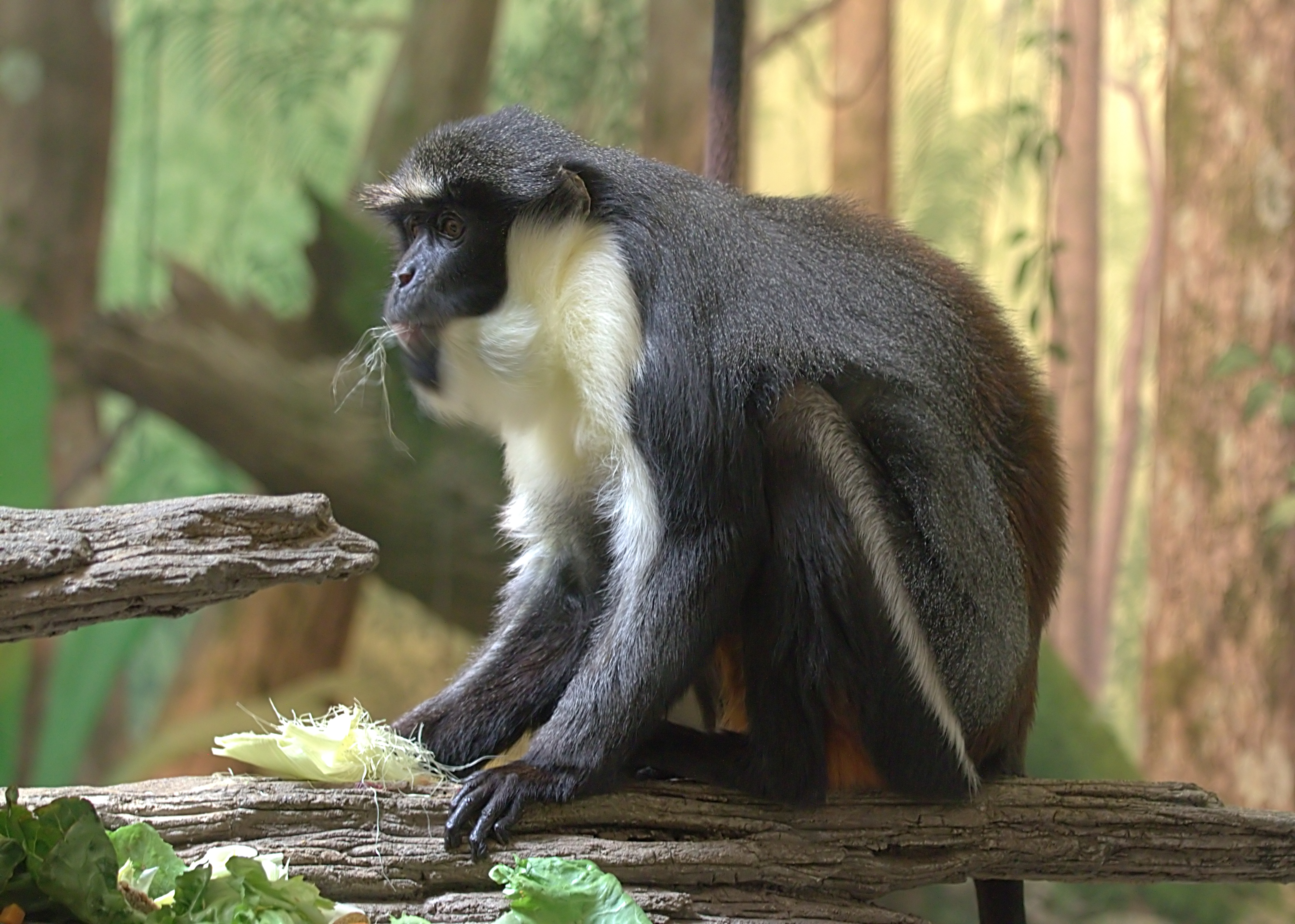 Cercopithecus diana taken at Cincinnati Zoo.